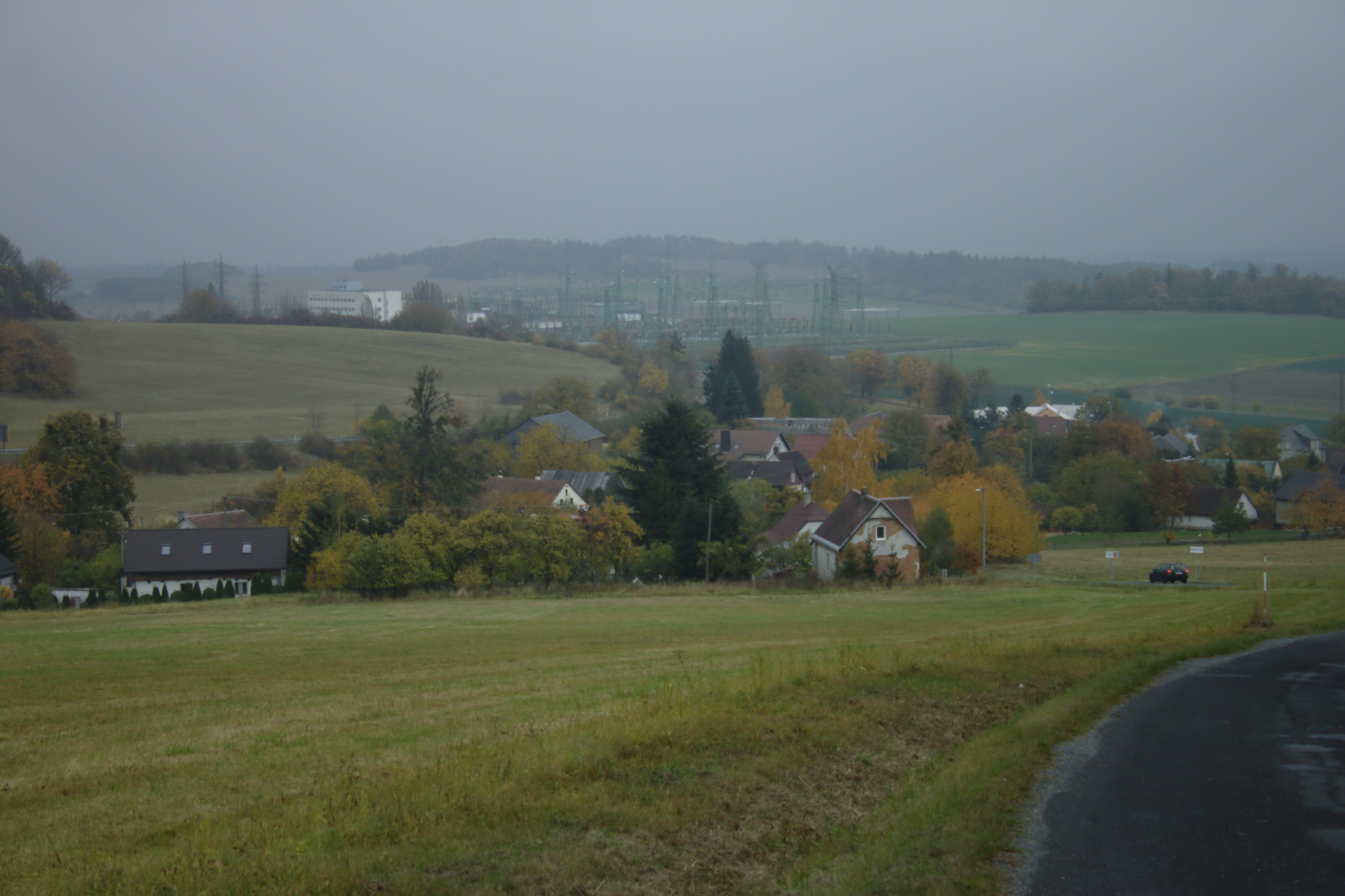 View of the village of Horní Životice from the west; Horní Životice substation in the background